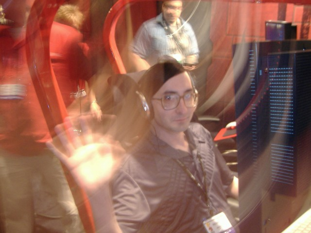 Photograph of Bruce Sterling Woodcock, taken at E3 2005